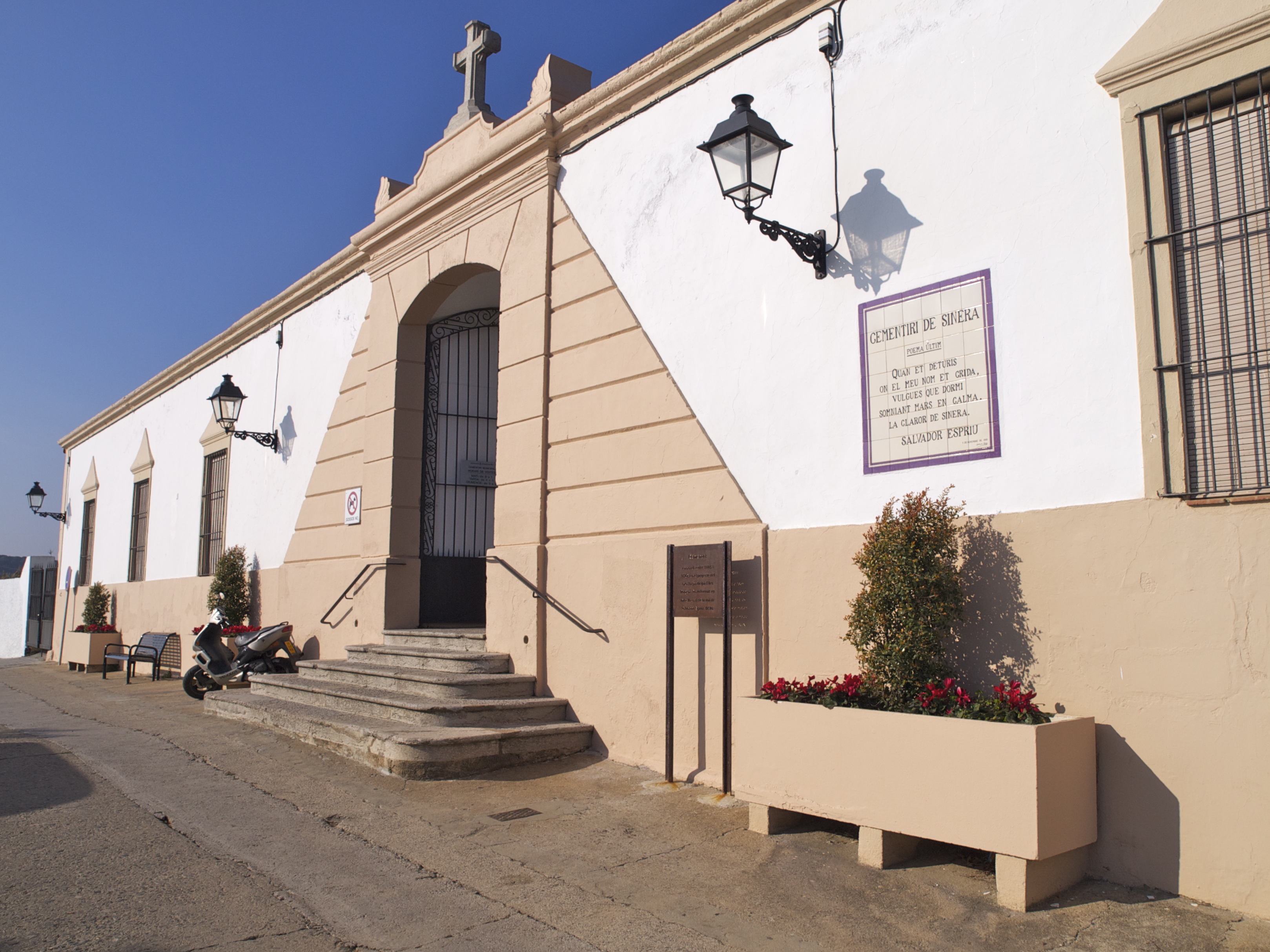 Cemetery of Arenys de Mar. Main entrance.